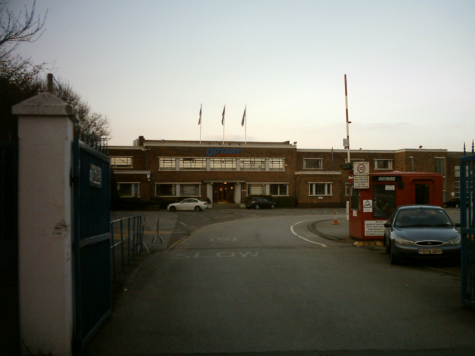 The Optare factory on Manston Lane, Cross Gates, Leeds, West Yorkshire. The image is of the Optare Bus factory in Leeds. The photograph was taken on the evening of the 1st April 2009.